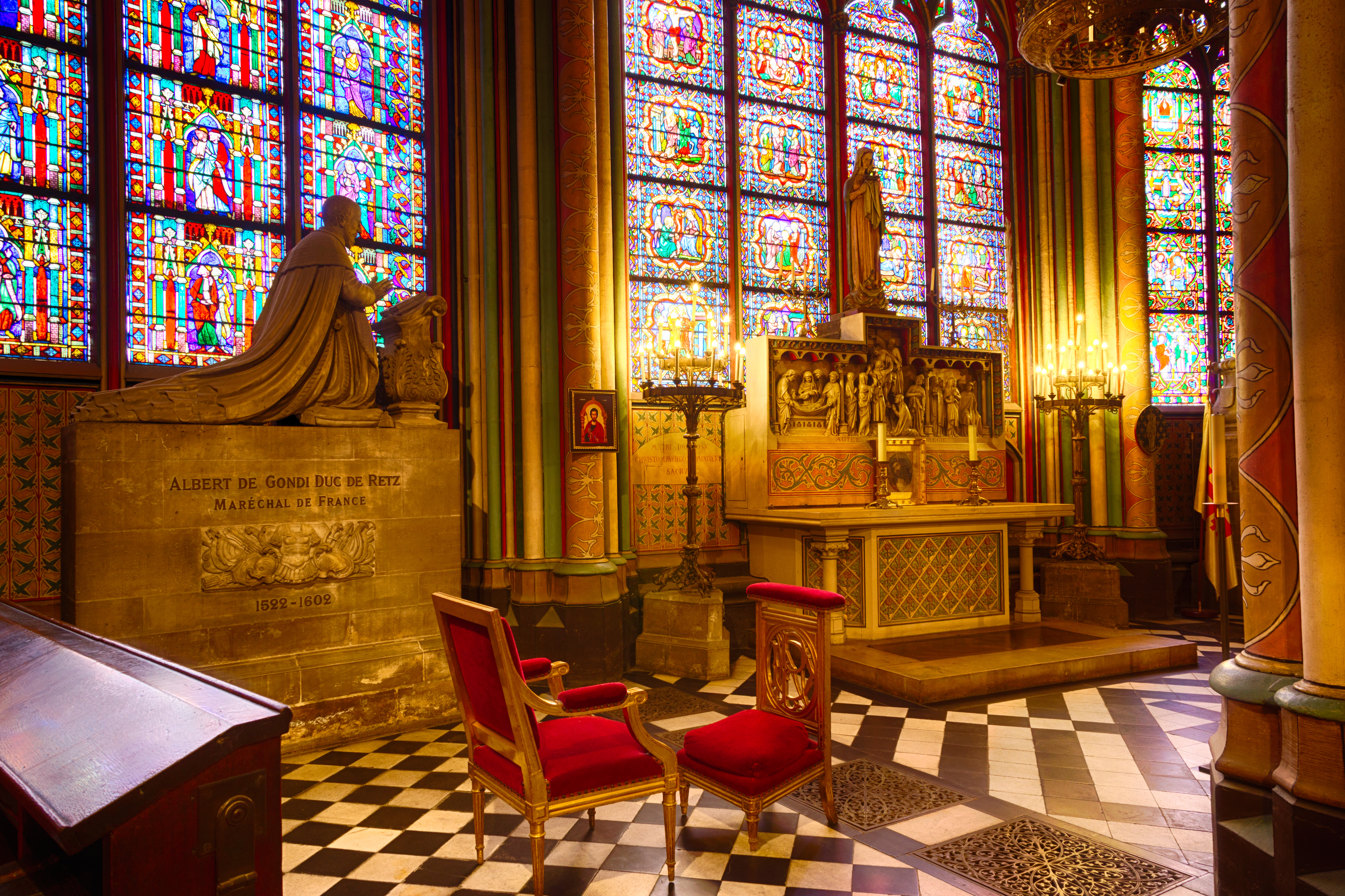 Notre Dame cathedral